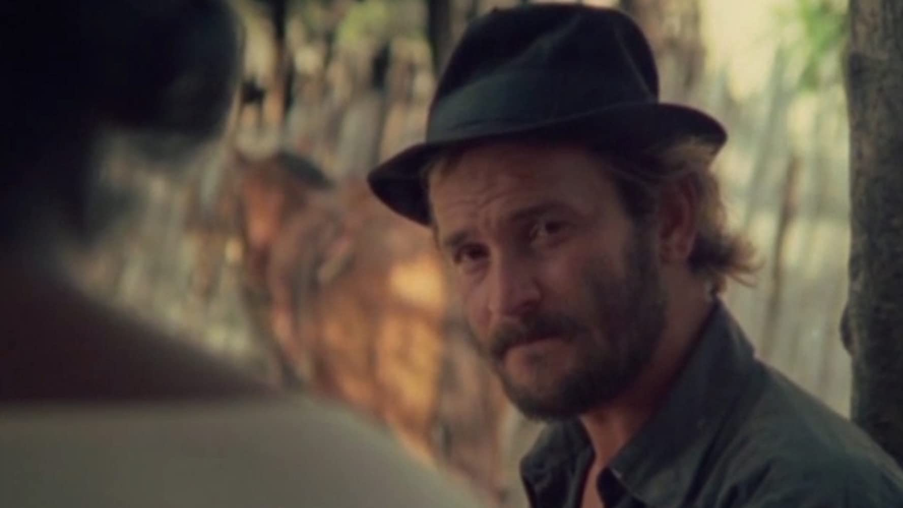 Hernando Casanova, a colombian actor who became famous in Colombia due his comedy roles. Despite that he was a dramatic actor and this is a frame Dunav Kuzmanich's Canaguaro.